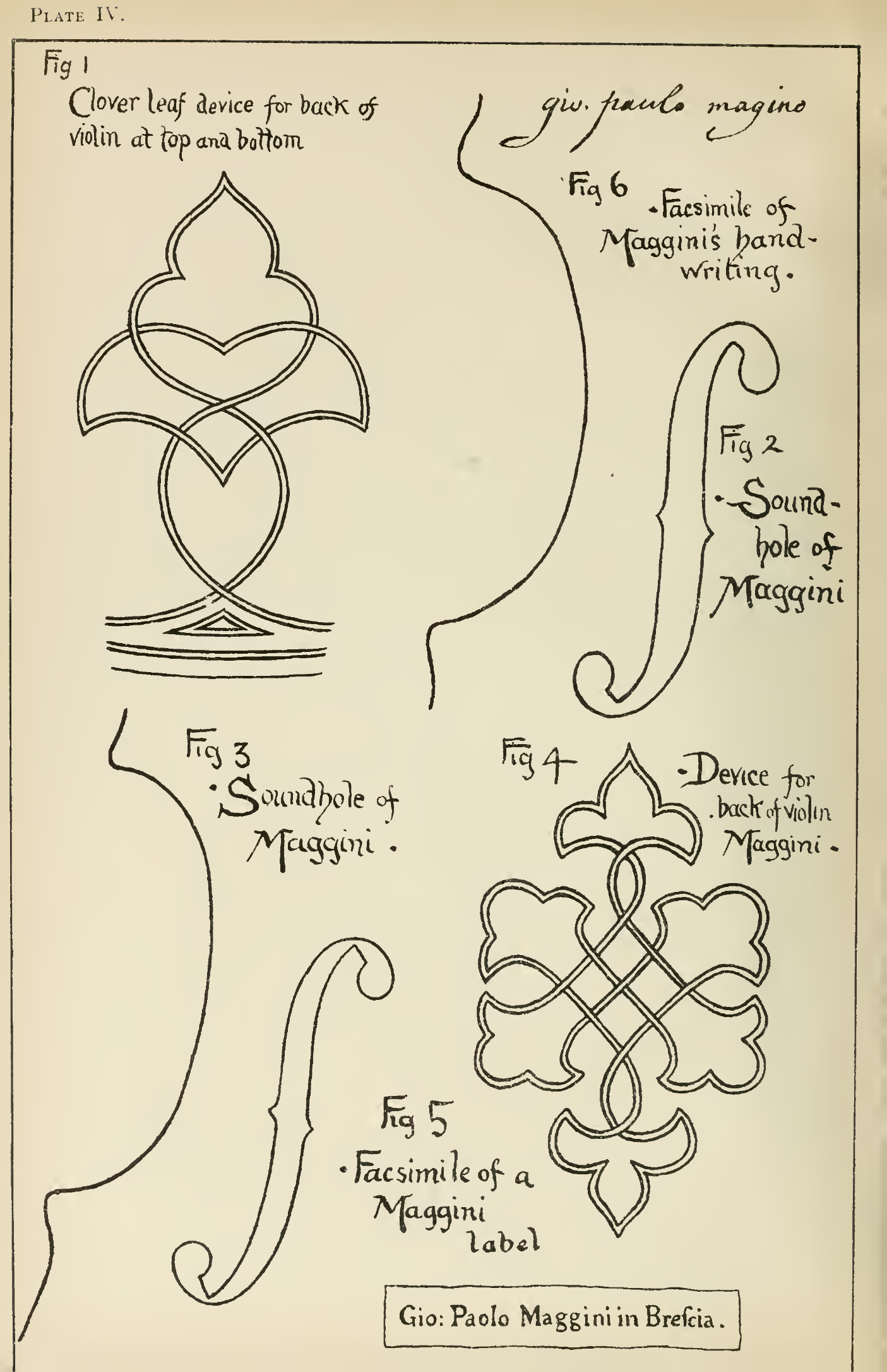 Illustration of Maggini f-holes and label.